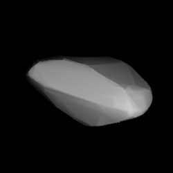 3D convex shape model of 822 Lalage, computed using light curve inversion techniques. J. Hanuš, J. Ďurech, M. Brož, B. D. Warner (June 2011). "A study of asteroid pole-latitude distribution based on an extended set of shape models derived by the lightcurve inversion method". Astronomy and Astrophysics 530: A134. ISSN 0004-6361. arXiv